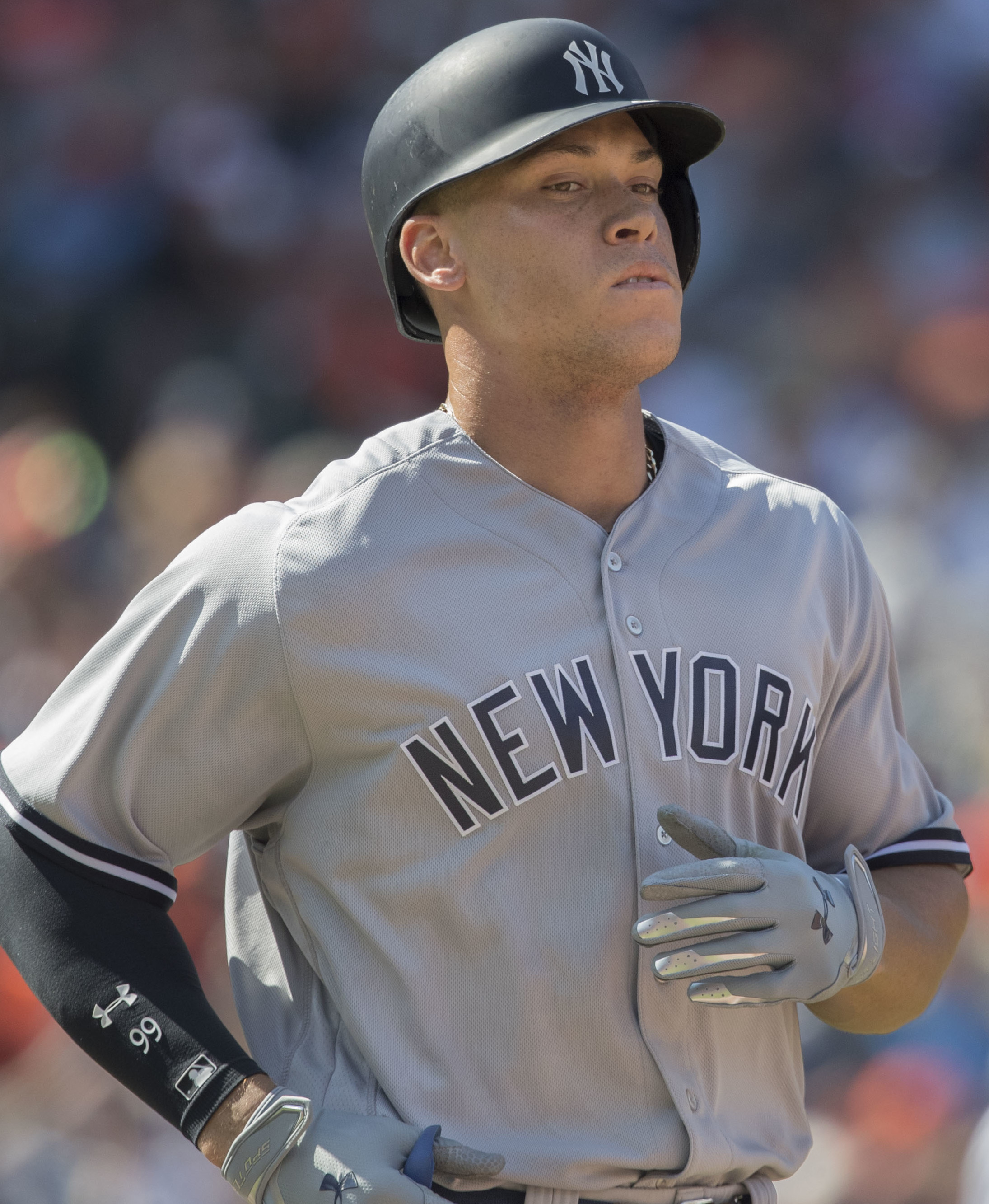 Aaron Judge of the New York Yankees during a game against the Baltimore Orioles at Oriole Park at Camden Yards on September 4, 2017 in Baltimore, Maryland.